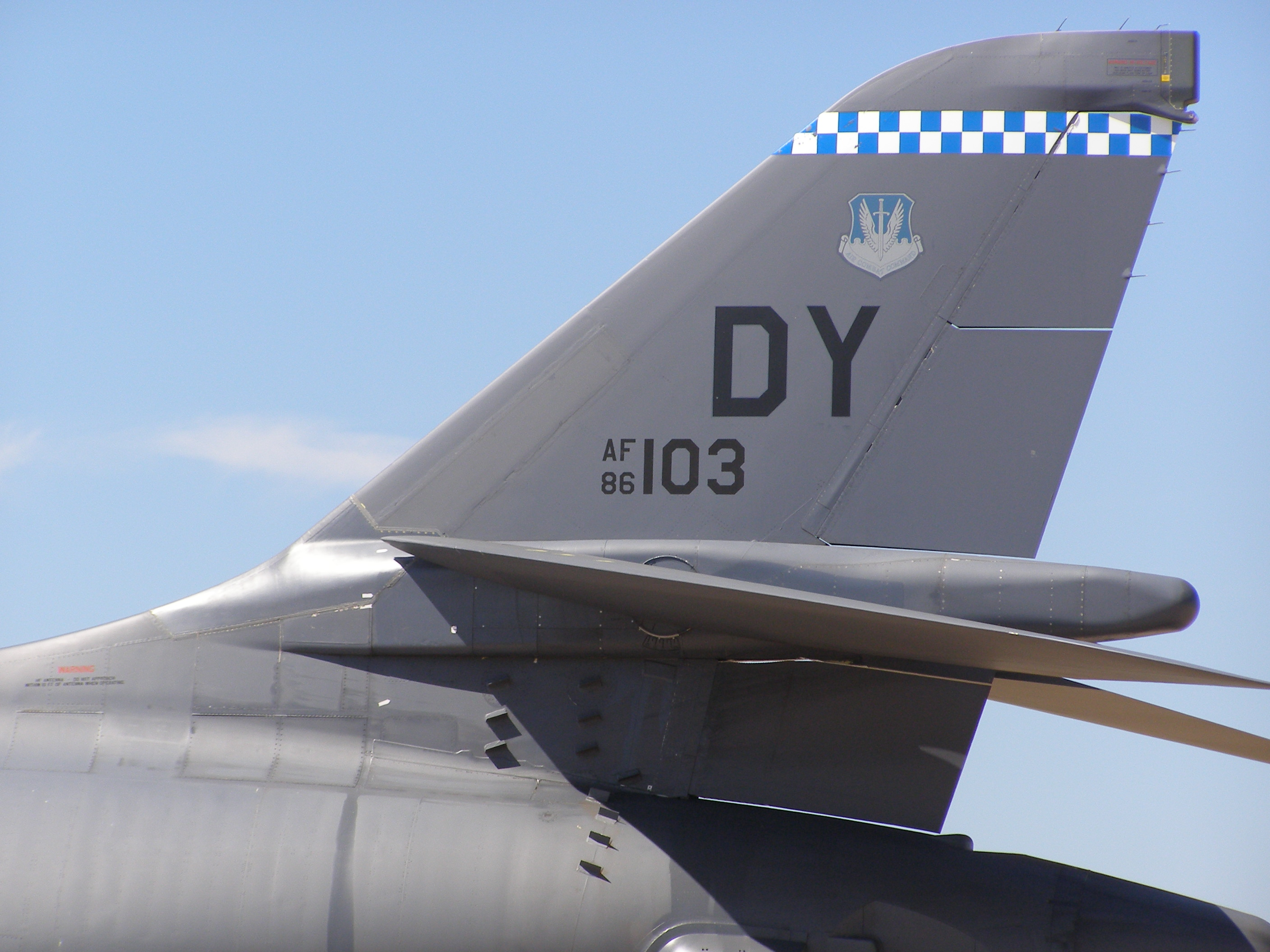 86-0103 a United States Air Force Rockwell B-1B (tail only)